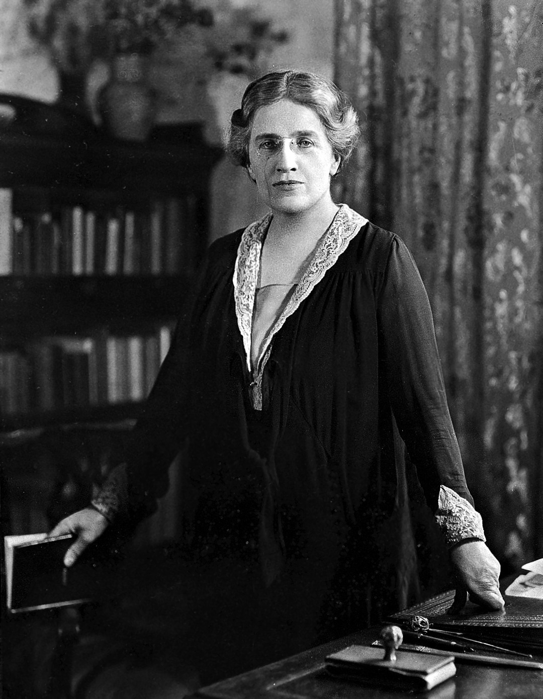 Louisa Martindale. President of the Med. Womens Fed. (1930-1932).